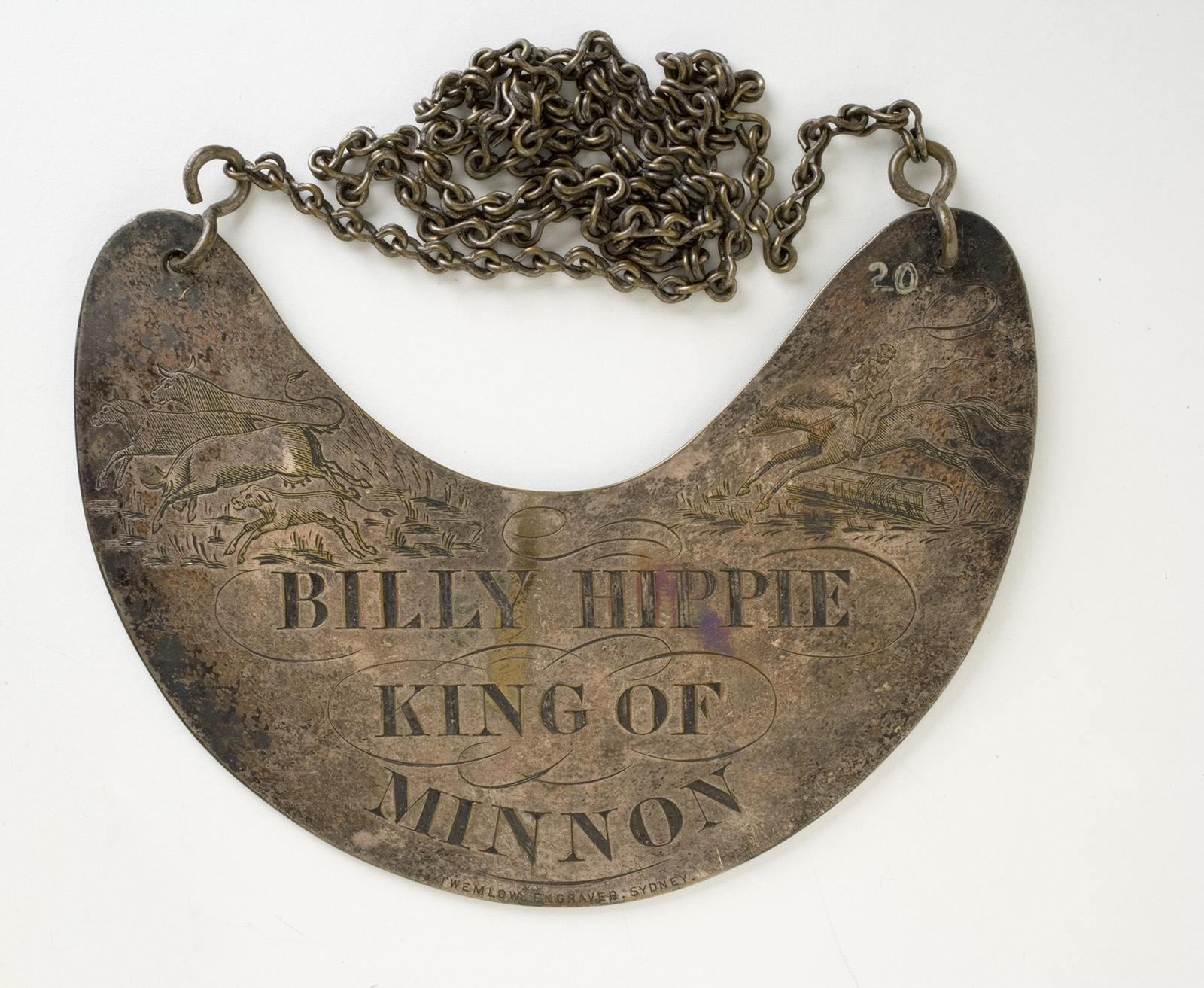 An engraved crescent-shaped brass breastplate with a hole at the edge of each horn to attach a chain. The decoration on the breastplate shows an Aboriginal stockworker who is an expert horseman in full pursuit of runaway cattle. This king plate, or breastplate, was presented to Minnon Station Indigenous stockworker Billy Hippie. In the National Museum of Australia.